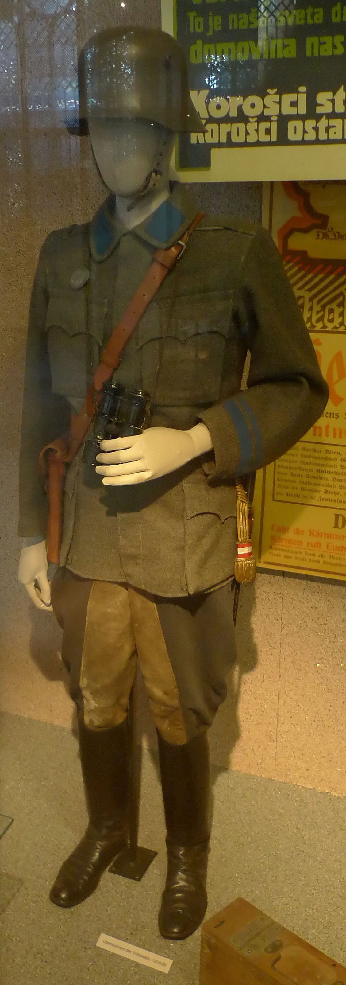 Uniform of a first lieutenant of the Deutschösterreichische Volkswehr, 1918/20. Heeresgeschichtliches Museum Wien.